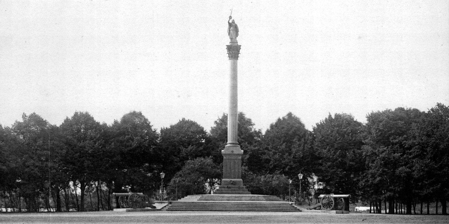 column to German-French War 1870/71 in Schwerin